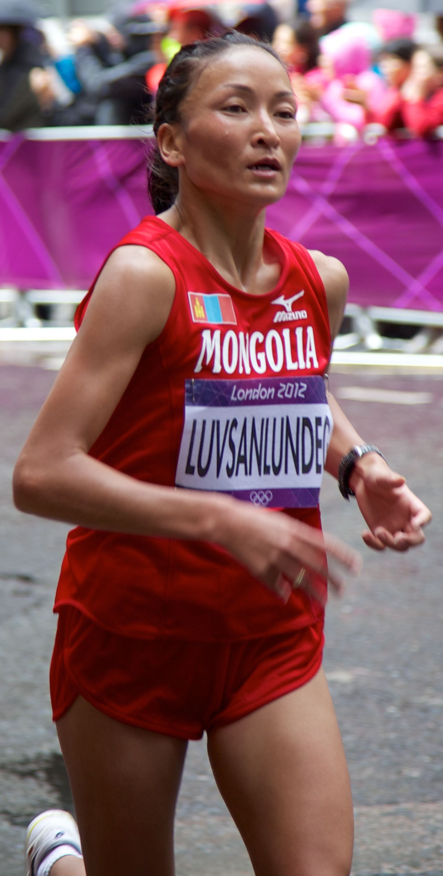 Women's Marathon